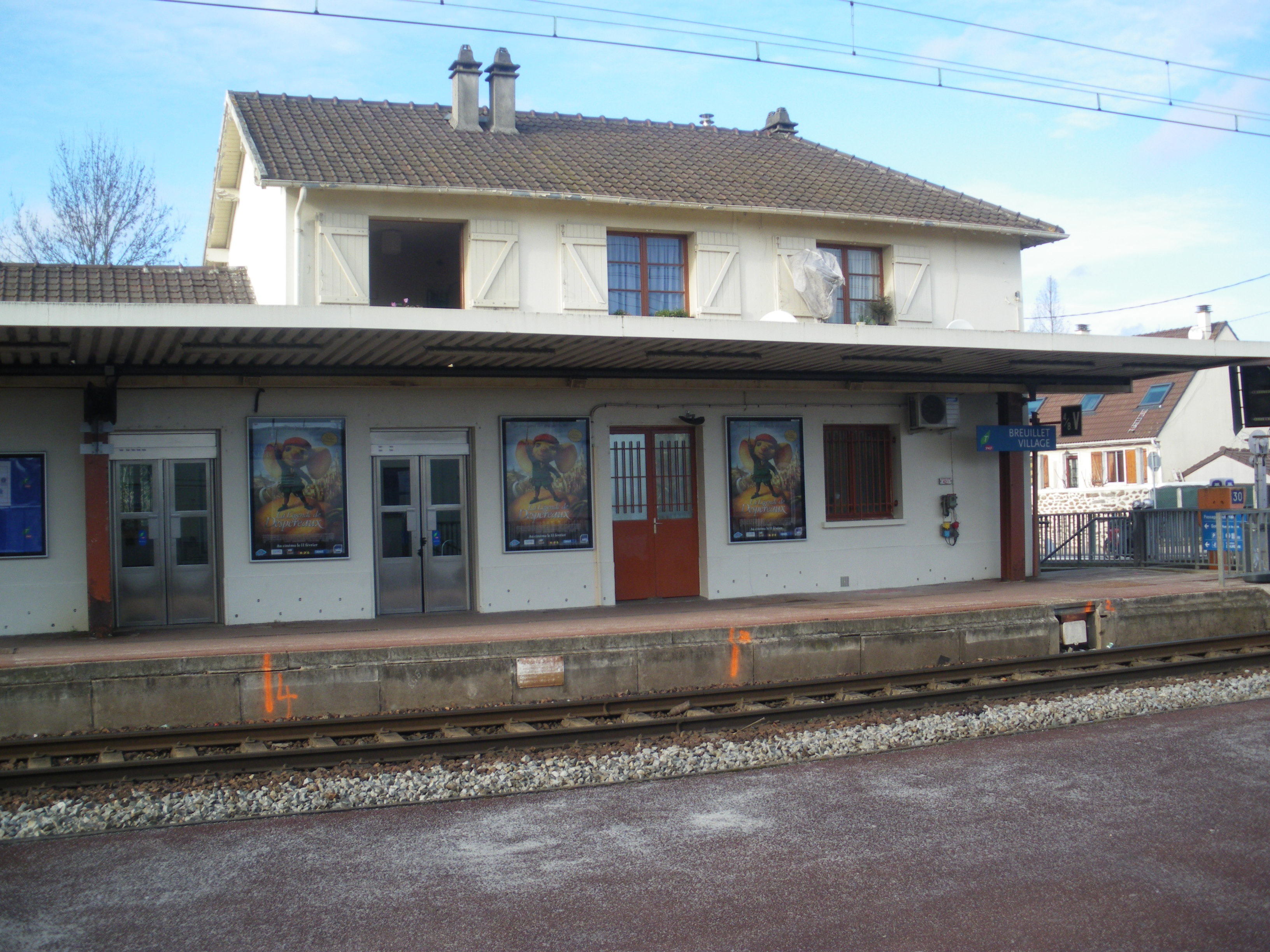 Breuillet Village Station, Paris RER C ligne, Essonne, France